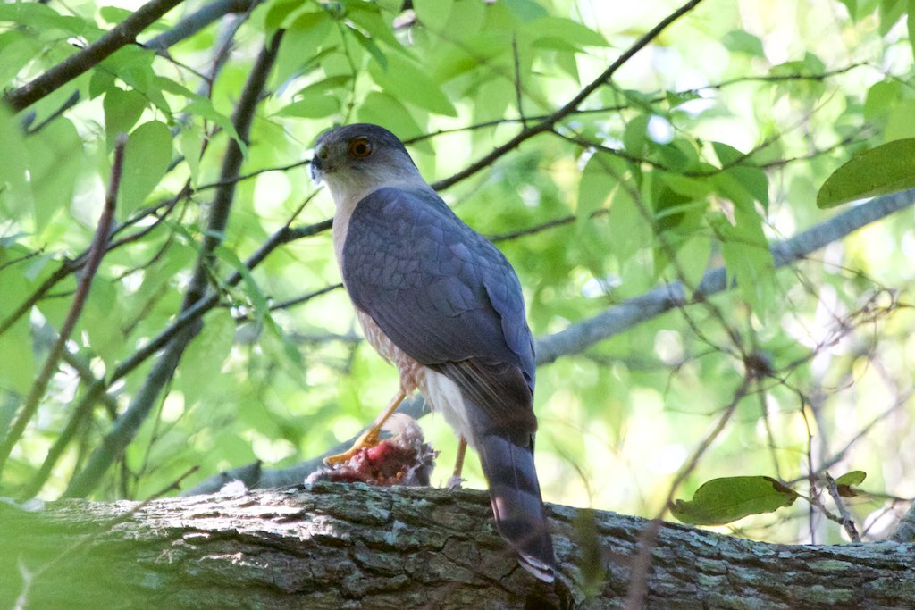 Sharp-shinned Hawk Accipiter striatus, adult with prey, Dauphin Island, Alabama